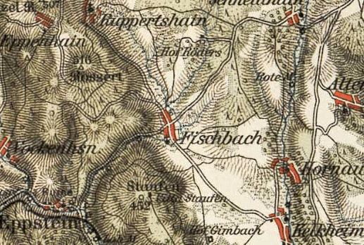 Frankfurt region, 1893: Fischbach, then a tiny village whithin the Taunus mountains west of Frankfurt, today a wealthy upper middle-class suburb of a european metropolis.